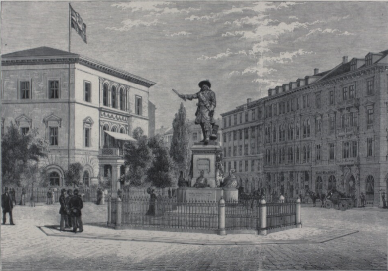 Illustration af statue af Niels Juel på Gammelholm